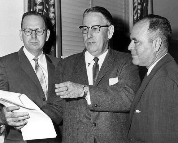 State Senator and former Governor of Florida Charley Eugene Johns died in 1990. Title: Senator Johns discussing plans to screen-out homosexuals : Tallahassee, Florida General Note: Accompanying note: "State Sen. Charley E. Johns, center, of Starke, chairman of the state legislative committee investigating homosexuality in schools and state agencies, and two of a succession of witnesses, Dr. B.R. Tilley, left, president of St. Johns Junior College at Palatka, and A.E. Mikell, superintendent of the Levy County schools, discuss plans whereby homosexuals could be detected before they could infiltrate public jobs. Mikell said he plans fingerprinting all his employees this summer. Committee is in a two day session, ending today."